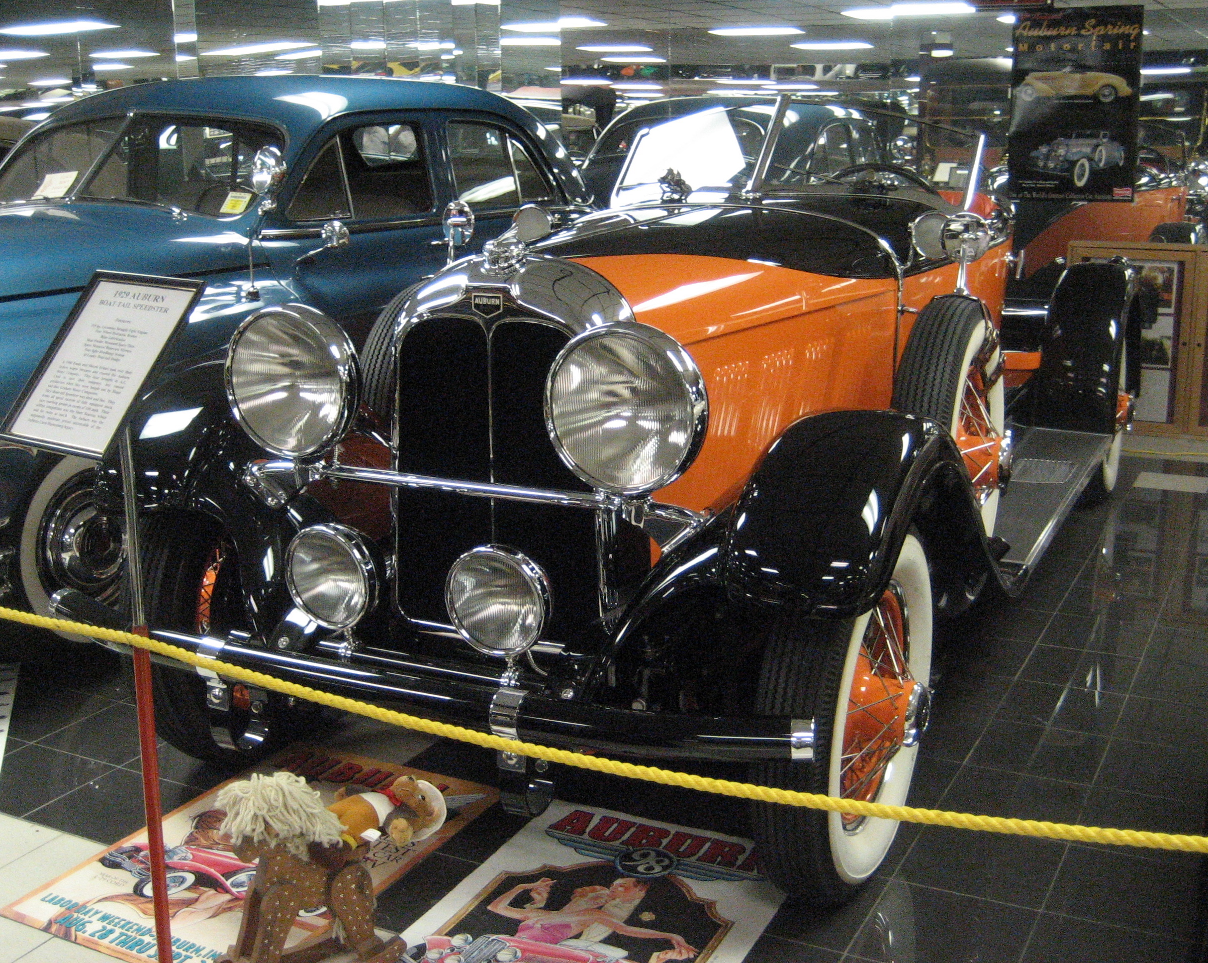 1929 Auburn on display at Tallahassee Automobile Museum. 115 hp Lycoming straight 8 boat-tail speedster.